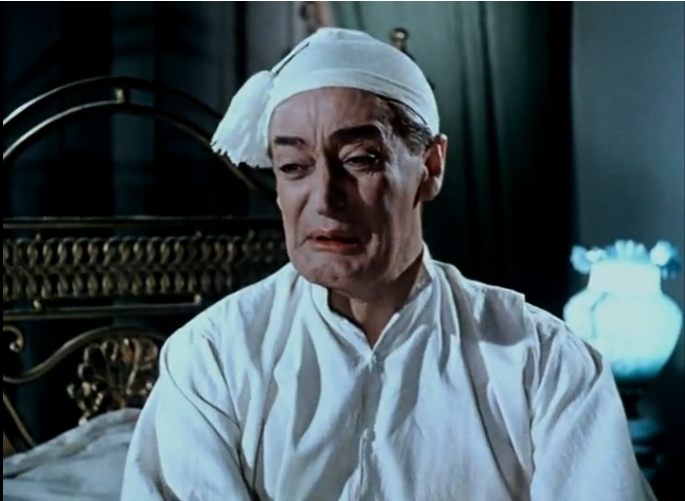 Screenshot from Italian movie "The Doctor of the Mad"